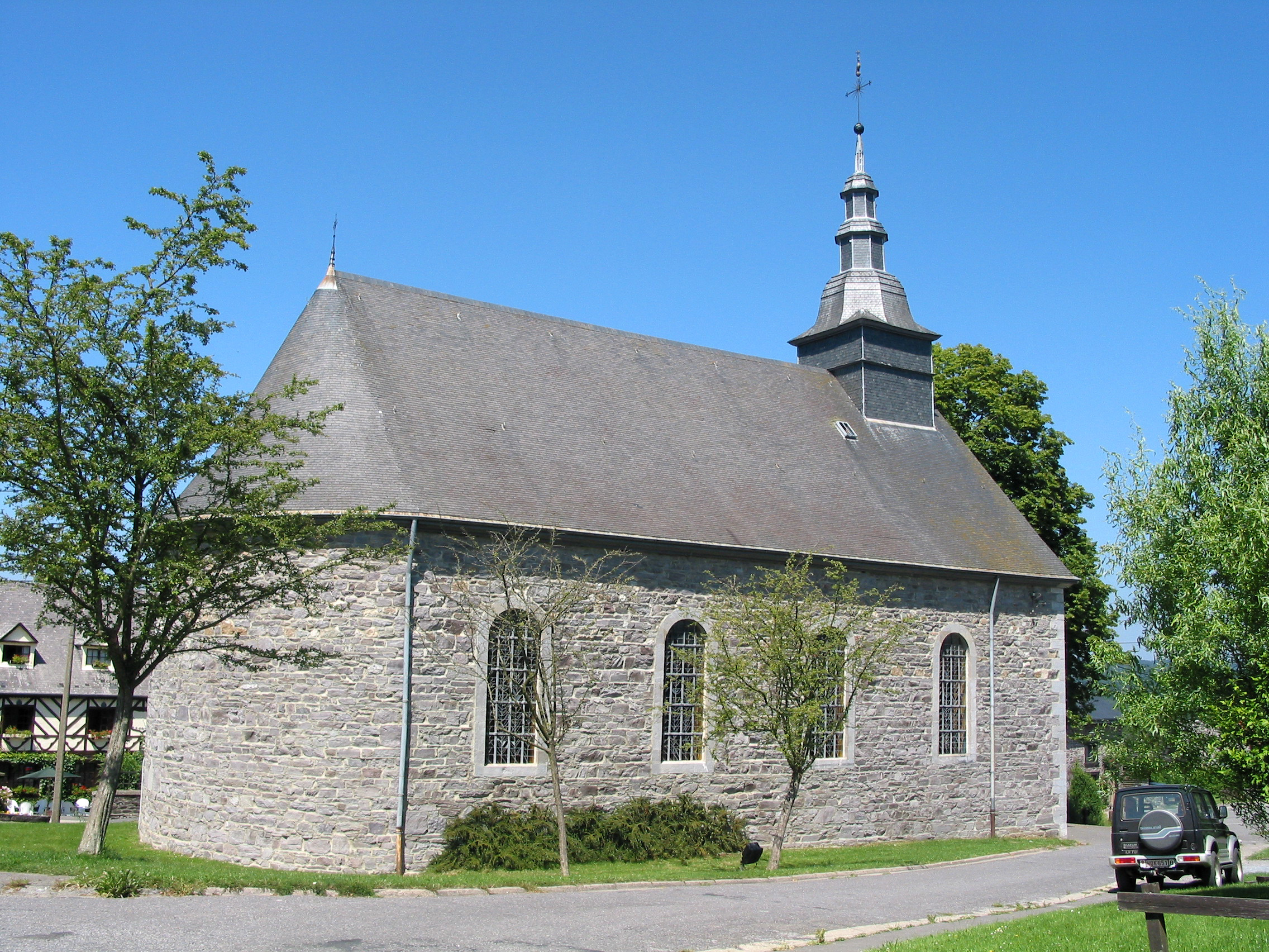 Smuid (Belgium), the St. Marguerite church (1824).